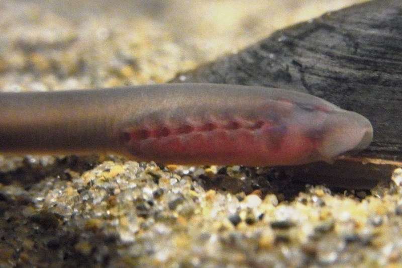 Ammocoetes larva of Eastern-brook-lamprey(Lethenteron reissneri). It was sampled in Akita, Japan. the photo was taken in a tank.